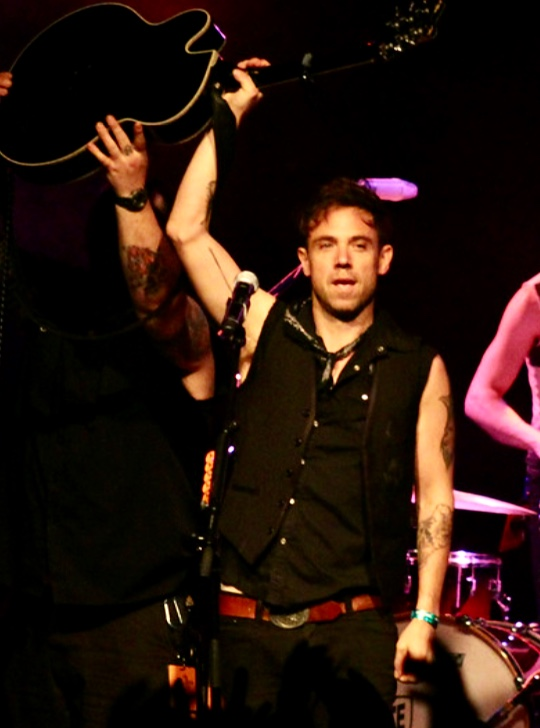 photo of Mikell Jollett